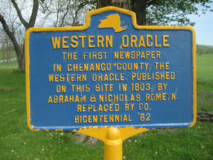 Historical marker of the Western Oracle, the first newspaper in Chenango County, NY. First published in 1803 by Abraham and Nicholas Romeyn.